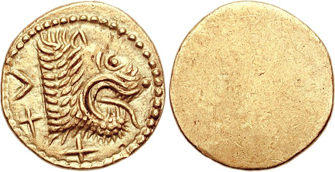 Etruria, Populonia. Circa 211-206 BC. AV 25 Asses (1.40 g) Second Punic War issue. Lion's head right; X-XV (mark of value) below and behind Blank. Vecchi I 47; HN Italy 128; SNG ANS 2; SNG France -; SNG Copenhagen 36. This Etruscan gold coin dates from the Second Punic War. The series it belongs to has denominational marks related to the bronze As, issued on the Roman sextantal standard (an As of two ounces) introduced circa 211 BC. Issued contemporaneously with the Roman Head of Mars/Eagle types of 60, 40 and 20 Asses, they probably did not circulate long after the cessation of the Roman types, as by circa 209 BC relations between Rome and Etruria had been strained considerably. The Etruscan types of the series differ from their Roman counterparts by the archaizing blank reverse which is shared by the silver coinage of Populonia as well, but is without parallel outside Etruria.